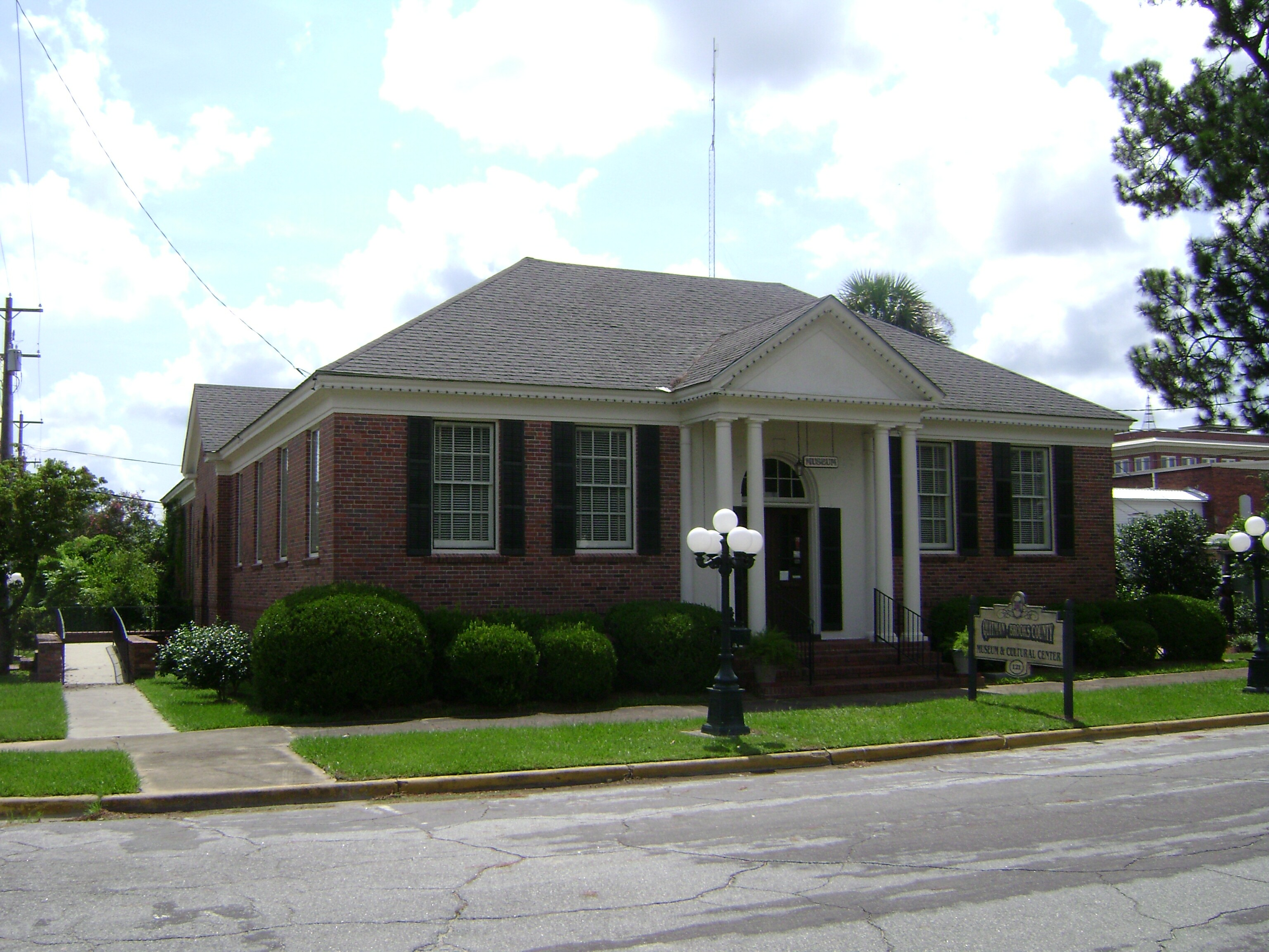 Quitman, Brooks County Cultural Center & Museum (front entrance) in Quitman, Brooks County, Georgia